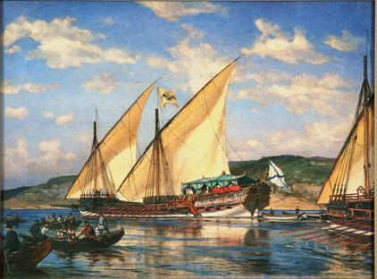 Alexander Karlovich Beggrov (1841-1914) Galera "Tver"